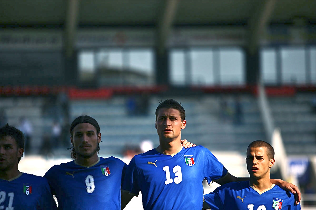 MAY 21, 2008 - Football : Sebastian Giovinco of Italy before the 36th Festival International 'Espoirs' of Toulon match between U23 Italy and U23 Cote d'Ivoire at Stade Mayol on May 21, 2008 in Toulon, France. (Photo by Tsutomu Takasu)